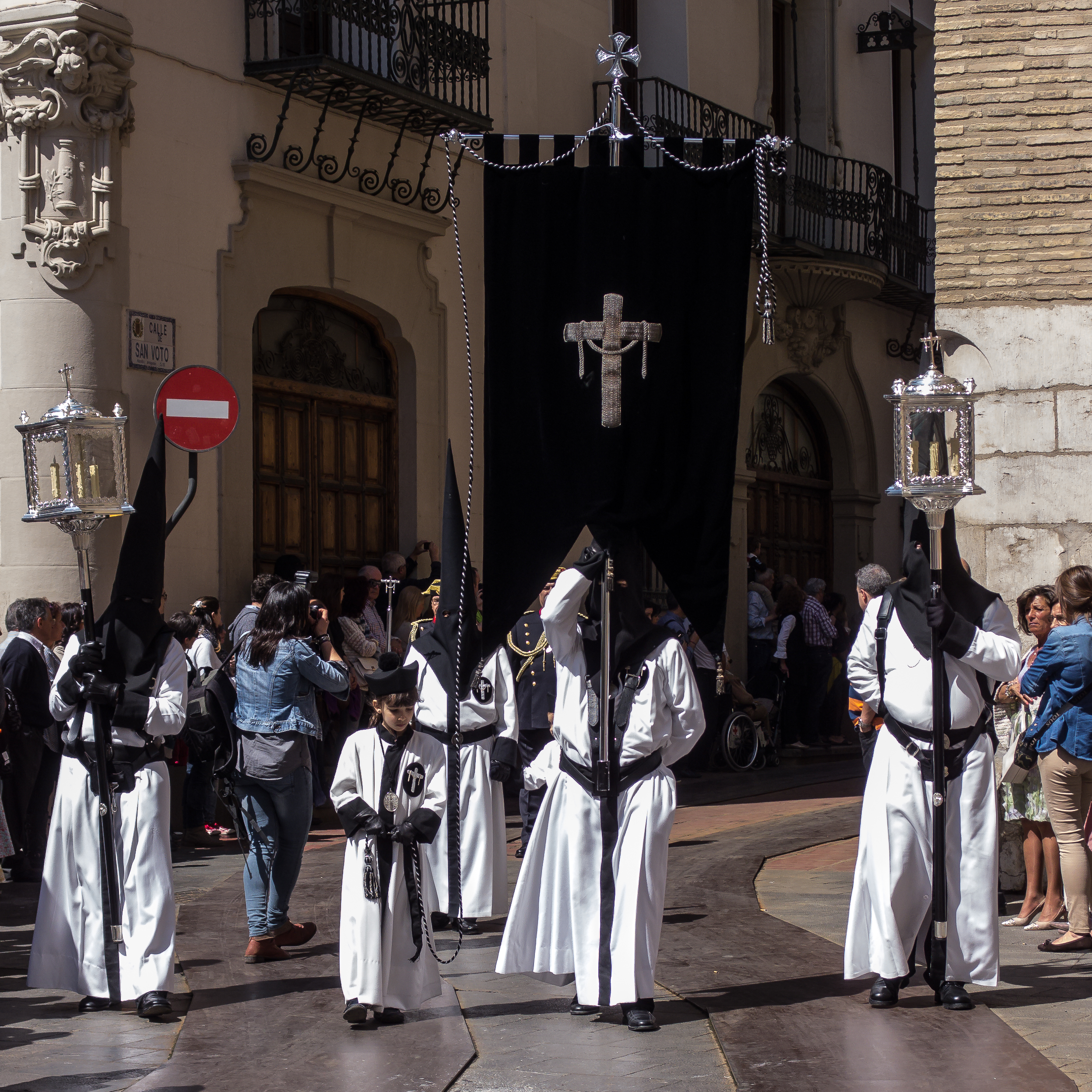 OLYMPUS DIGITAL CAMERA This is a photography of a Folklore festival in Spain (Wikidata id Q9075892).